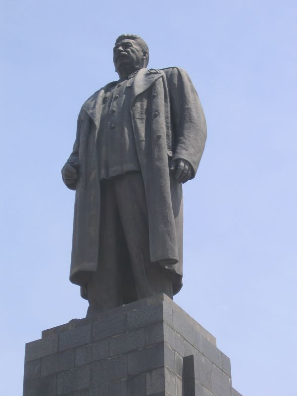 Stalin statue in Gori